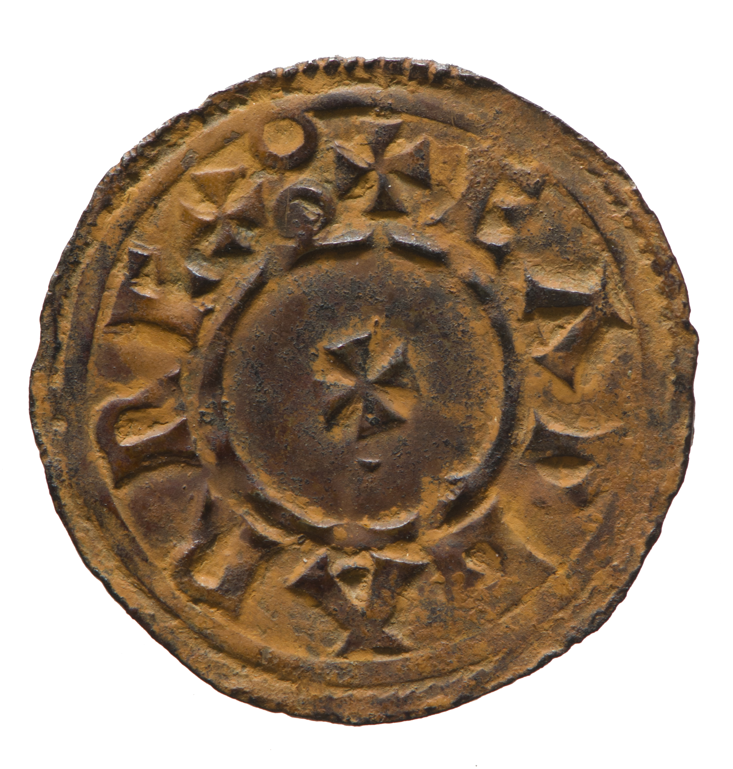 Obverse (front) of a silver penny of Edgar_the_Peaceful Small cross